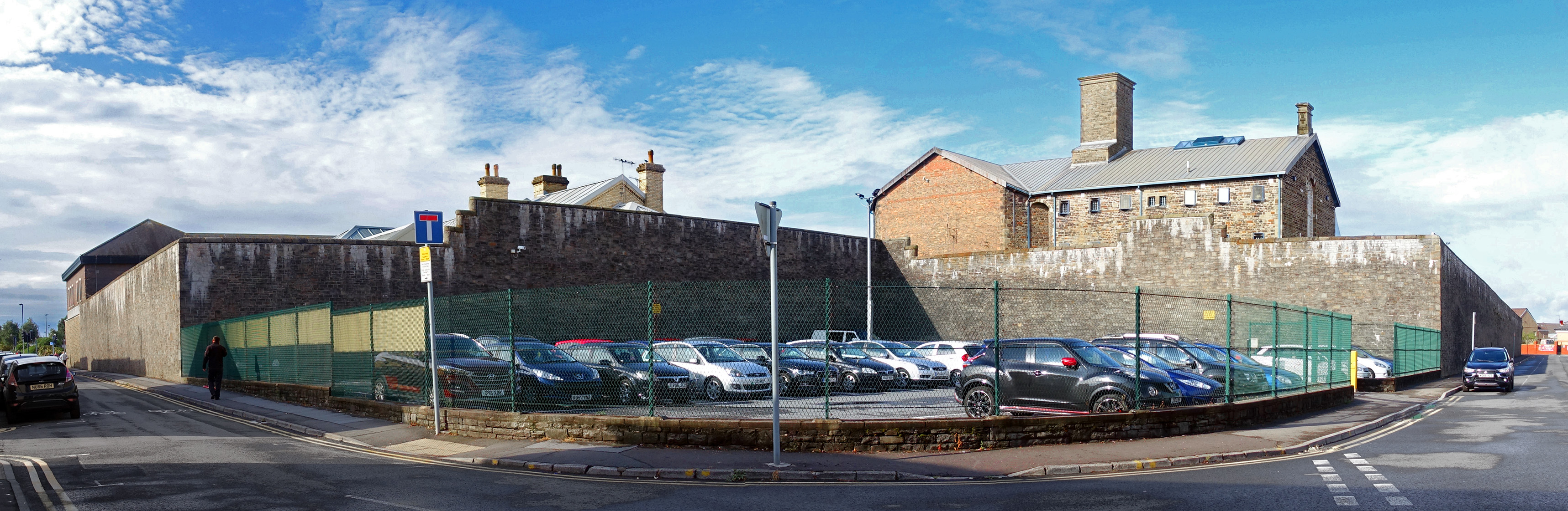 Swansea prison.